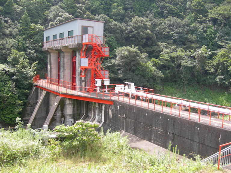 Erihara-dam at Shima city Mie Pref. Japan.